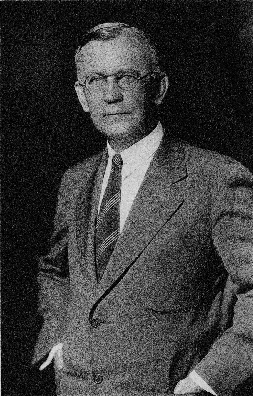 Frontis portrait of Joseph Quincy Adams, the first director of the Folger Shakespeare Library